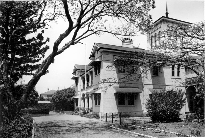 Yungaba Immigration Centre was erected in 1887 alongside the Brisbane River in Main Street, Kangaroo Point